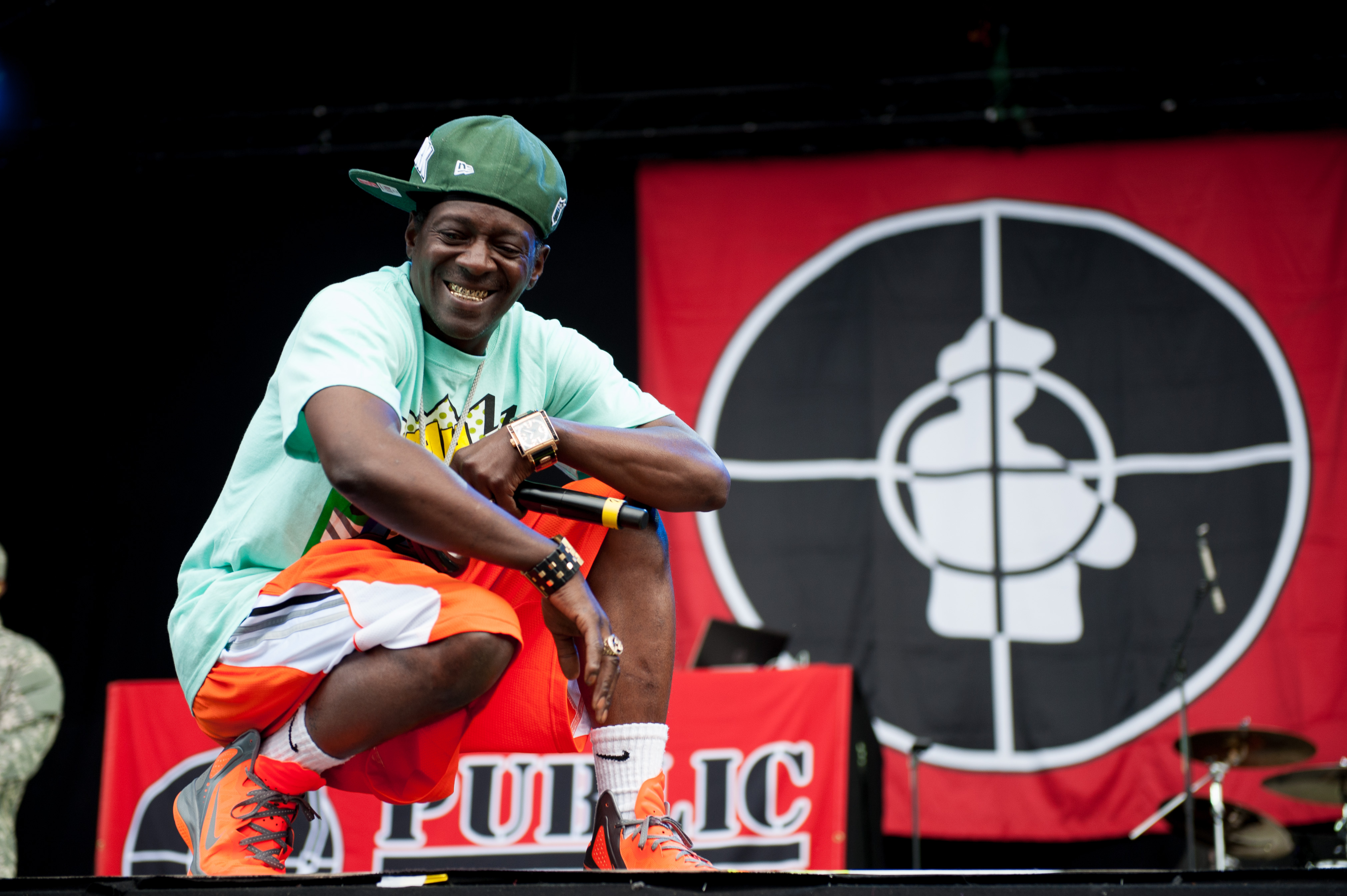 Flavor Flav of Public Enemy at Way Out West 2013 in Gothenburg, Sweden